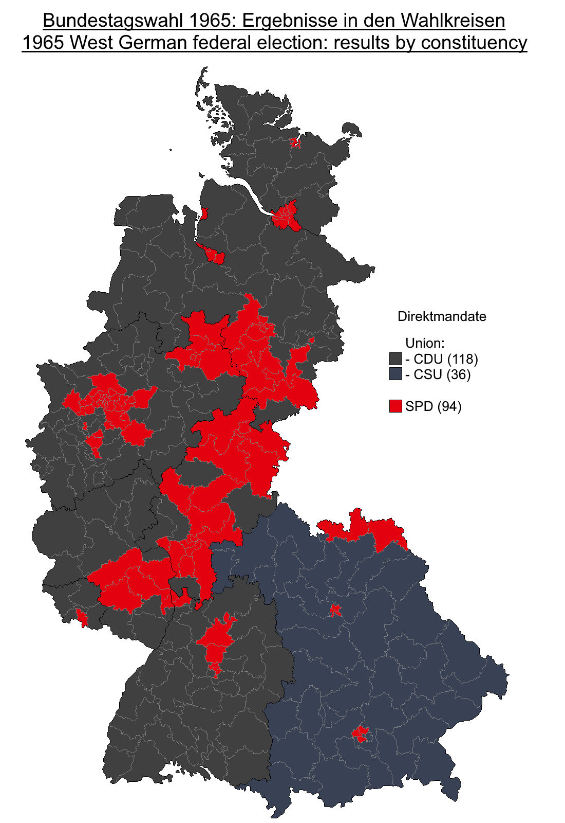 Results of the (West) German federal elections of 1965, showing direct seats won by party